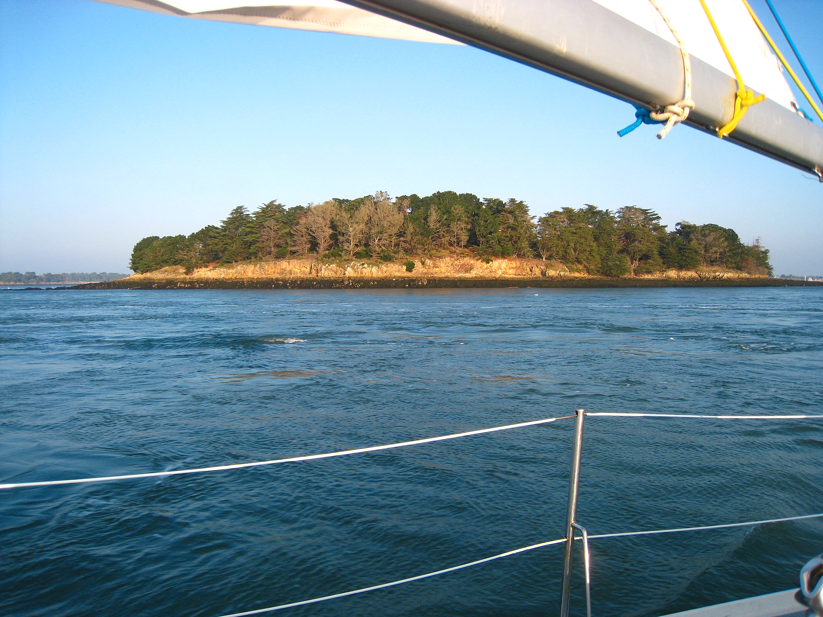 Current at the exit of the Golfe du Morbihan, where the strongest tidal race of southern Brittany is found. View probably of the Île de Berder or of the Île Longue, during a Glénans sailing course .